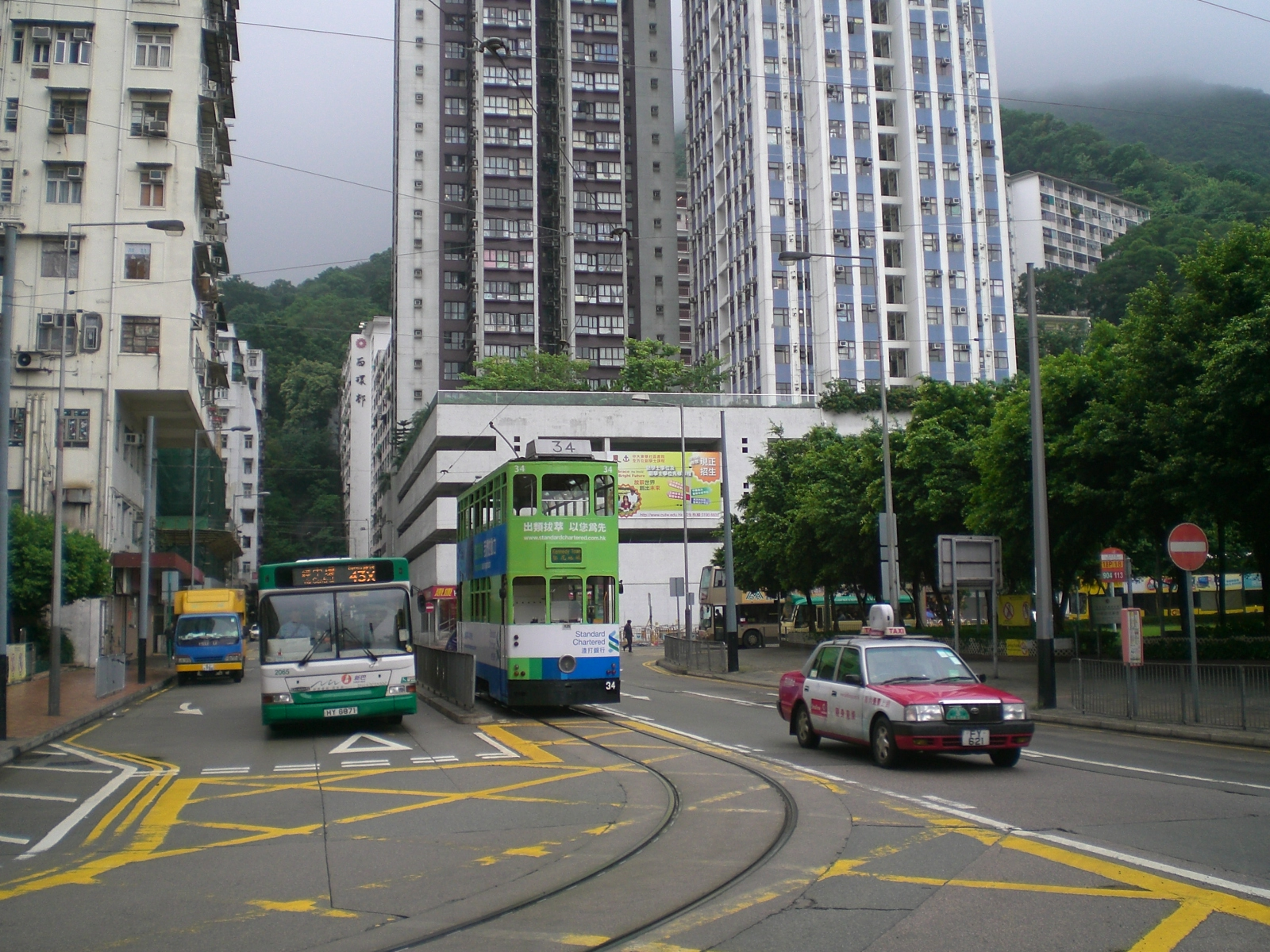 加多近街, Cadogan Street, Kennedy Town, Hong Kong.